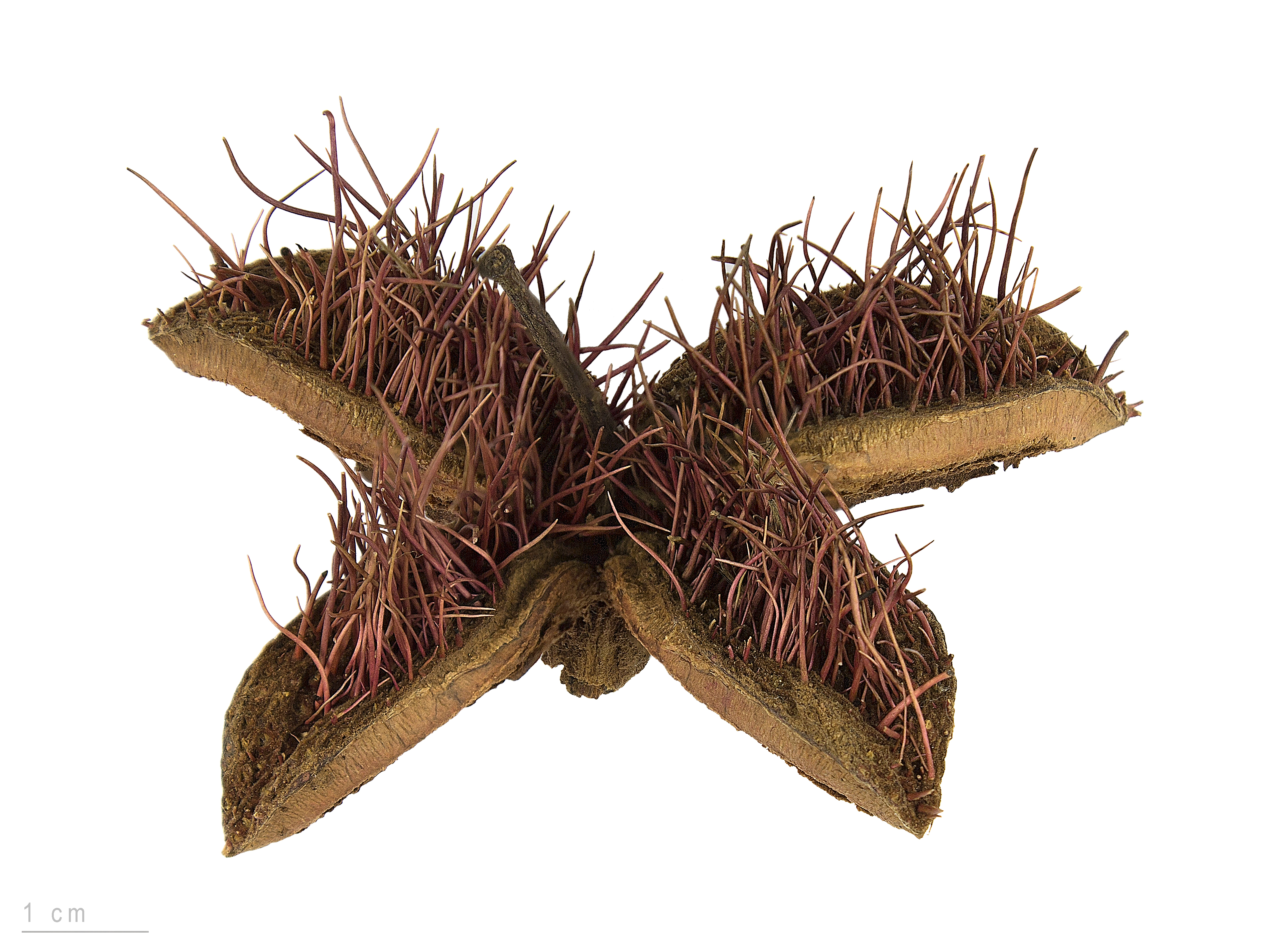 Sloanea tuerckheimii, fruits